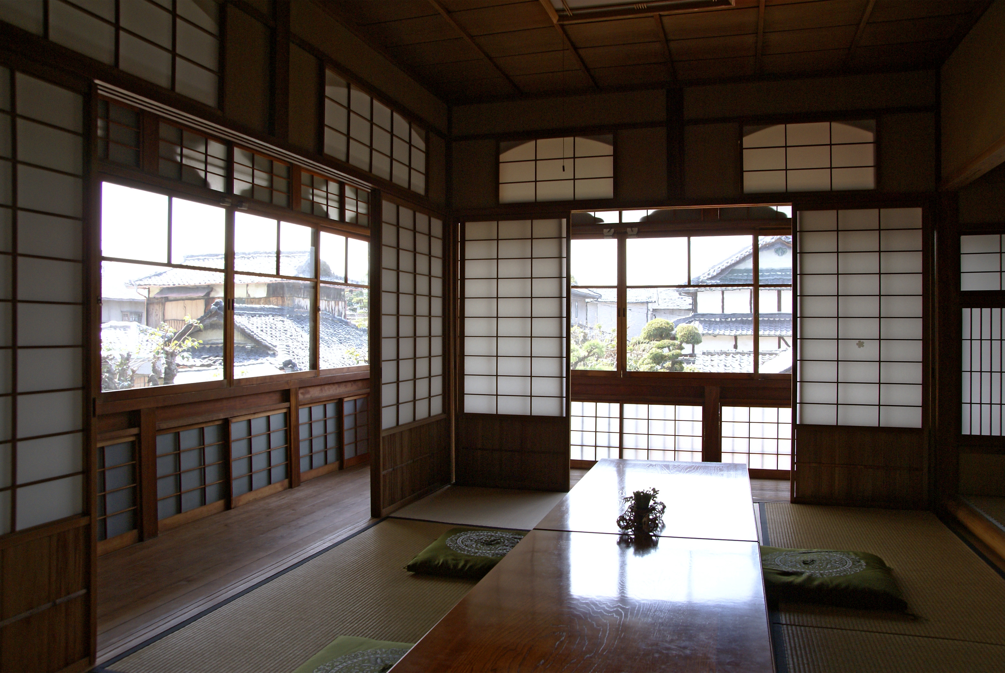 Tajiri Historic House in Tajiri, Osaka prefecture, Japan